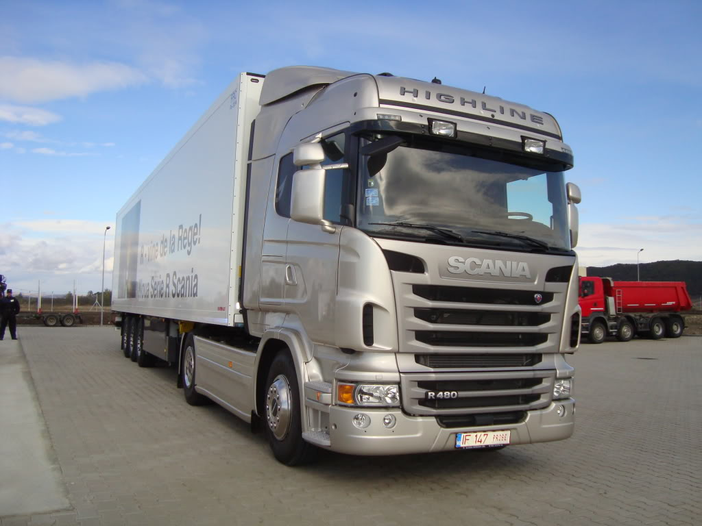 Scania R480 Facelift.